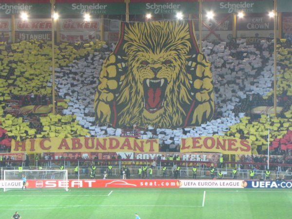 Galatasaray-A.Madrid 25.02.2010